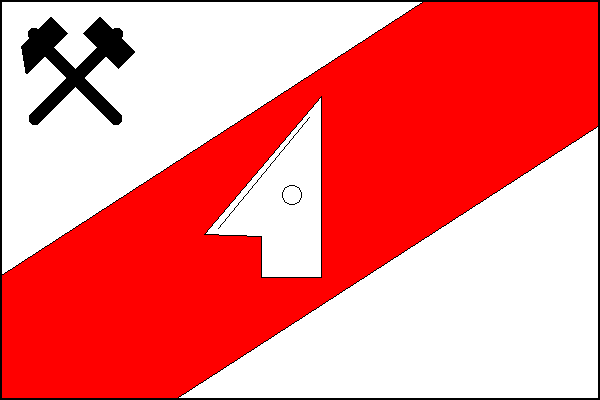 Municipal flag of Babice u Rosic village, Brno-Country District, Czech Republic.